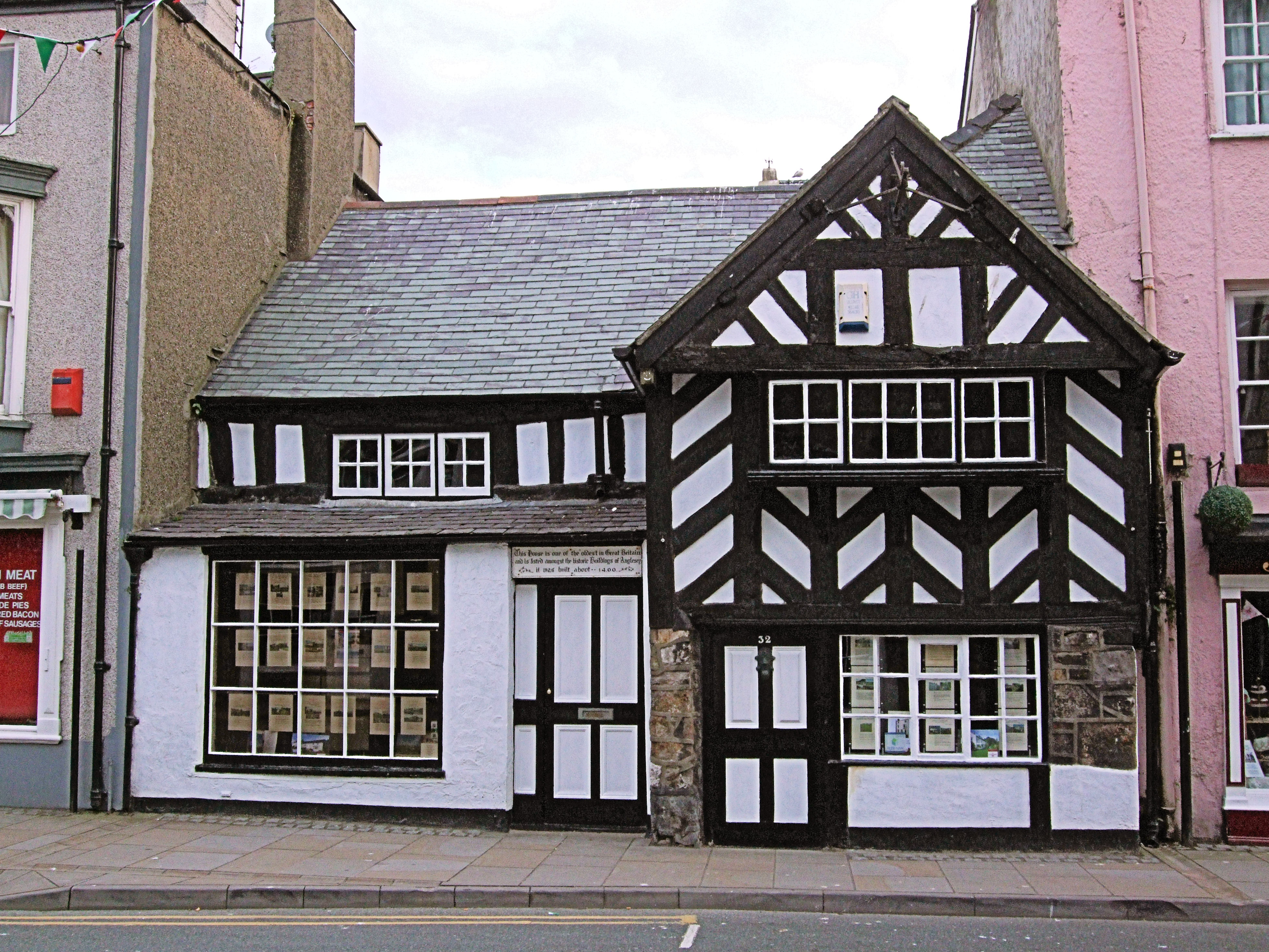 A Tudor house in Beaumaris. It was built in 1416 and is reputed to be one of the oldest houses in Great Britain.